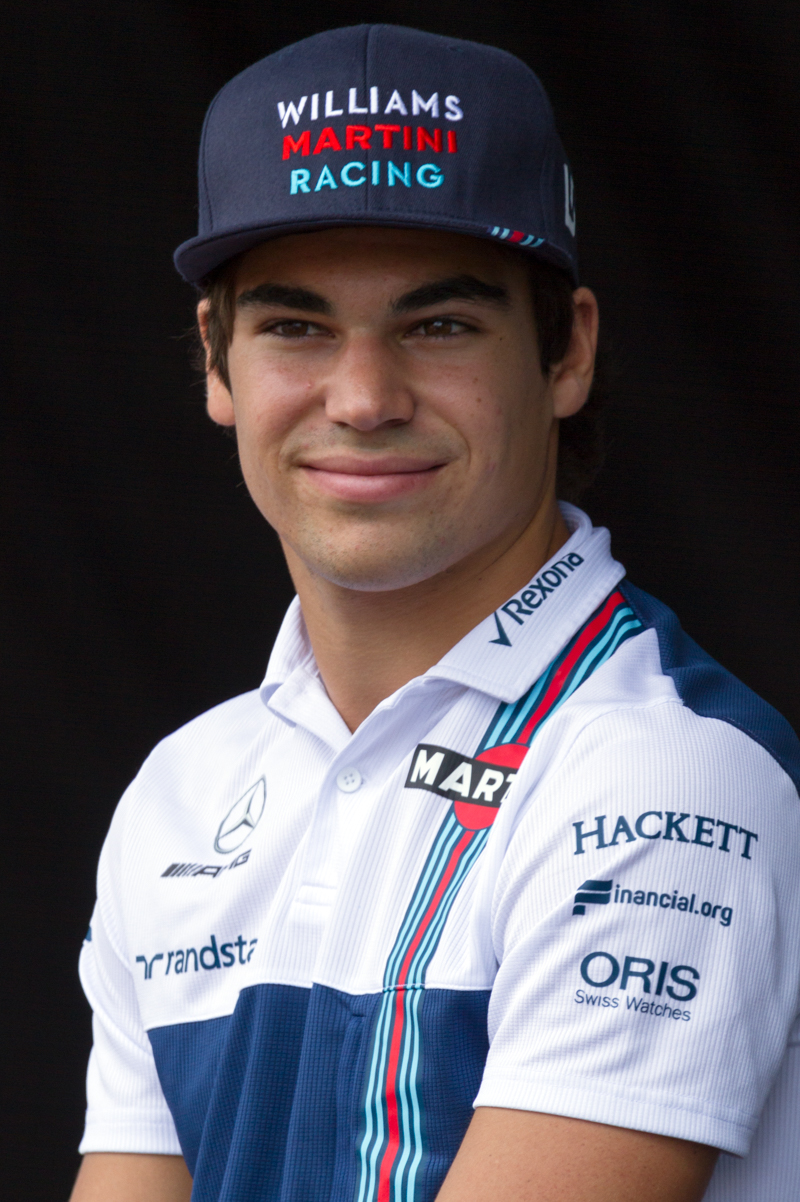 Formula One 2017 Round 15 Malaysian GP: Lance Stroll (Williams) at the fan meeting